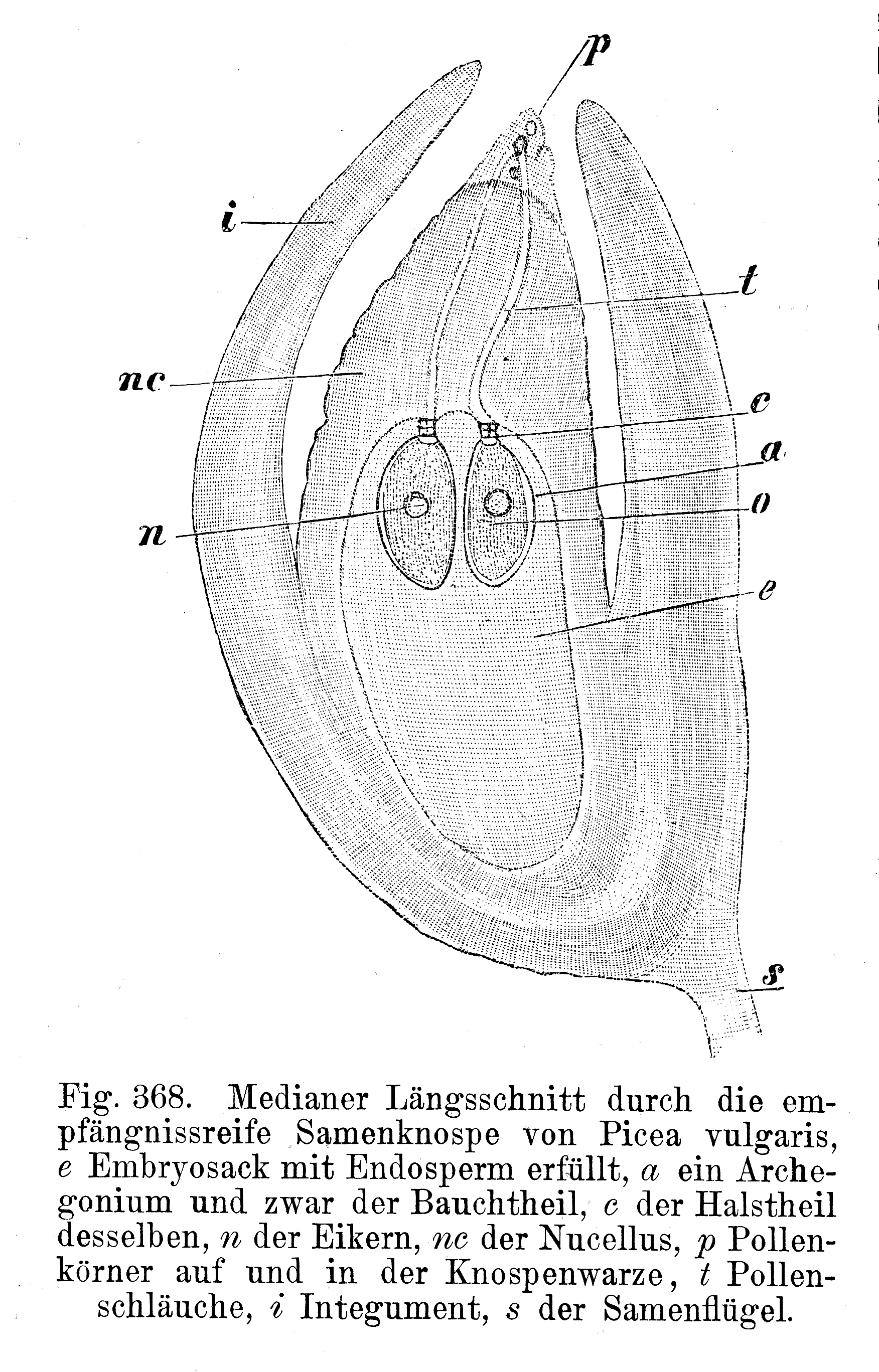 ovule of Picea abies / Samenanlage von Picea abies